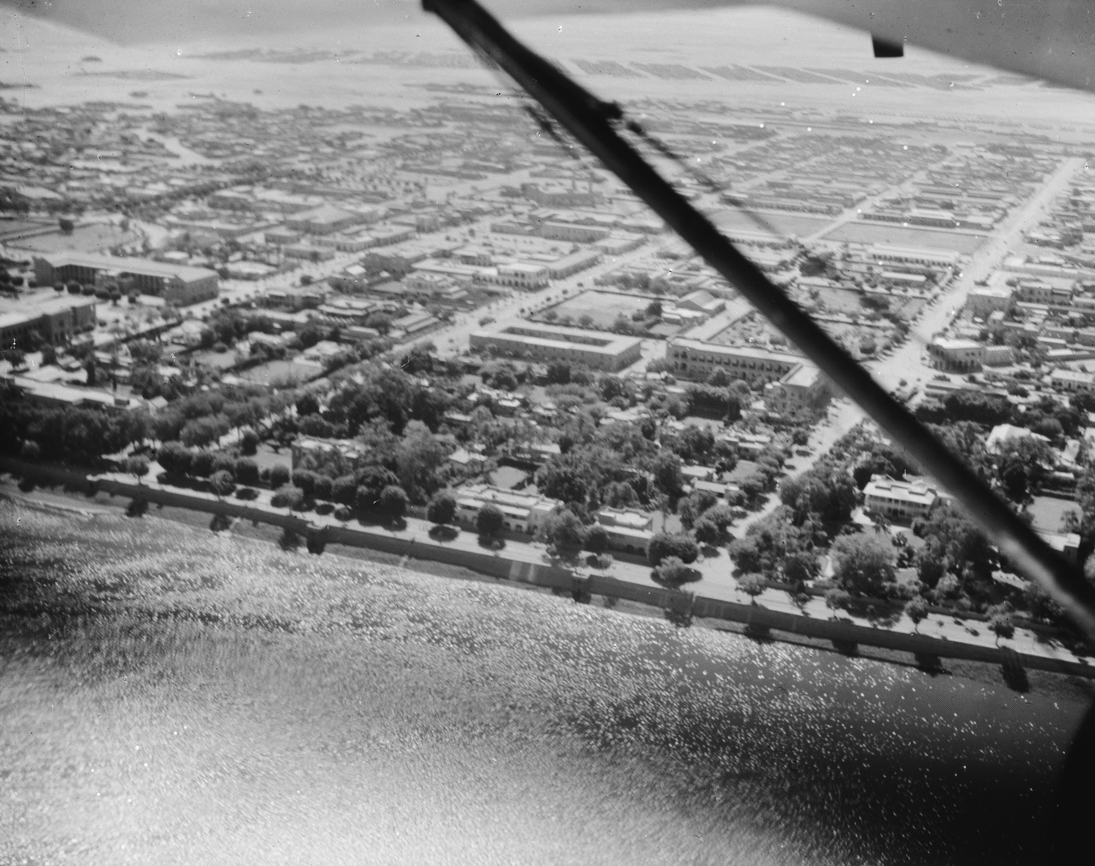 Sudan. Khartoum. River in foreground